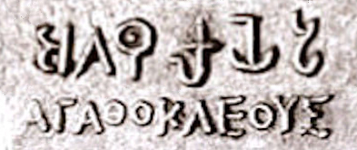 Equivalent legends Agathuklayesa (Brahmi) and Agathokles (Greek) on a coins of Agathocles of Bactria